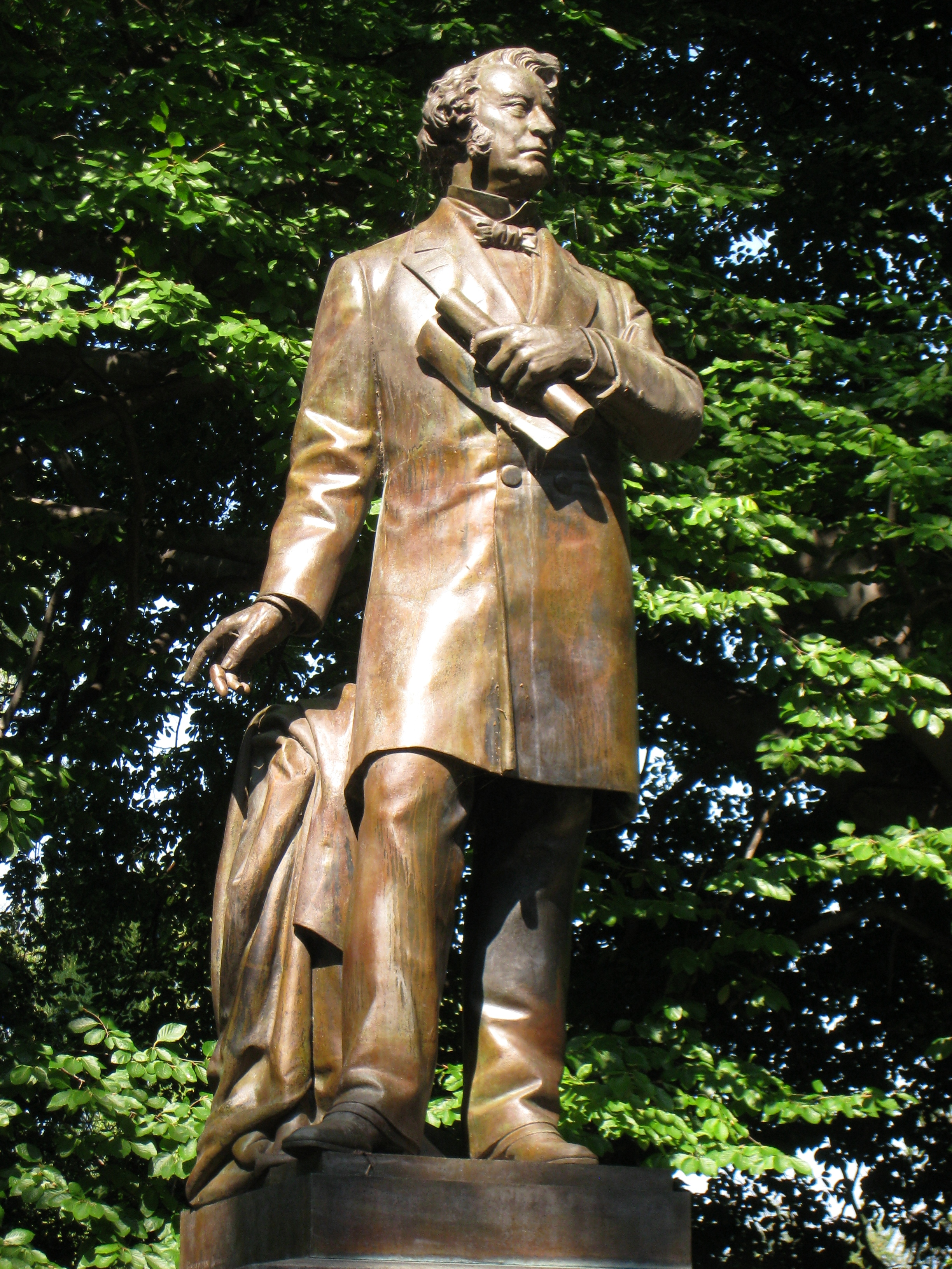 Statue of Charles Sumner by Thomas Ball, located in the Boston Public Garden, Boston, Massachusetts, USA. Detail showing statue only.